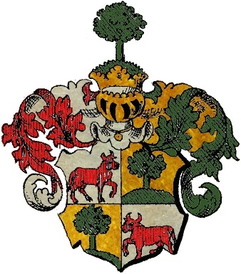 Coat of Arms Thomas Stepanek Knight of Taurova